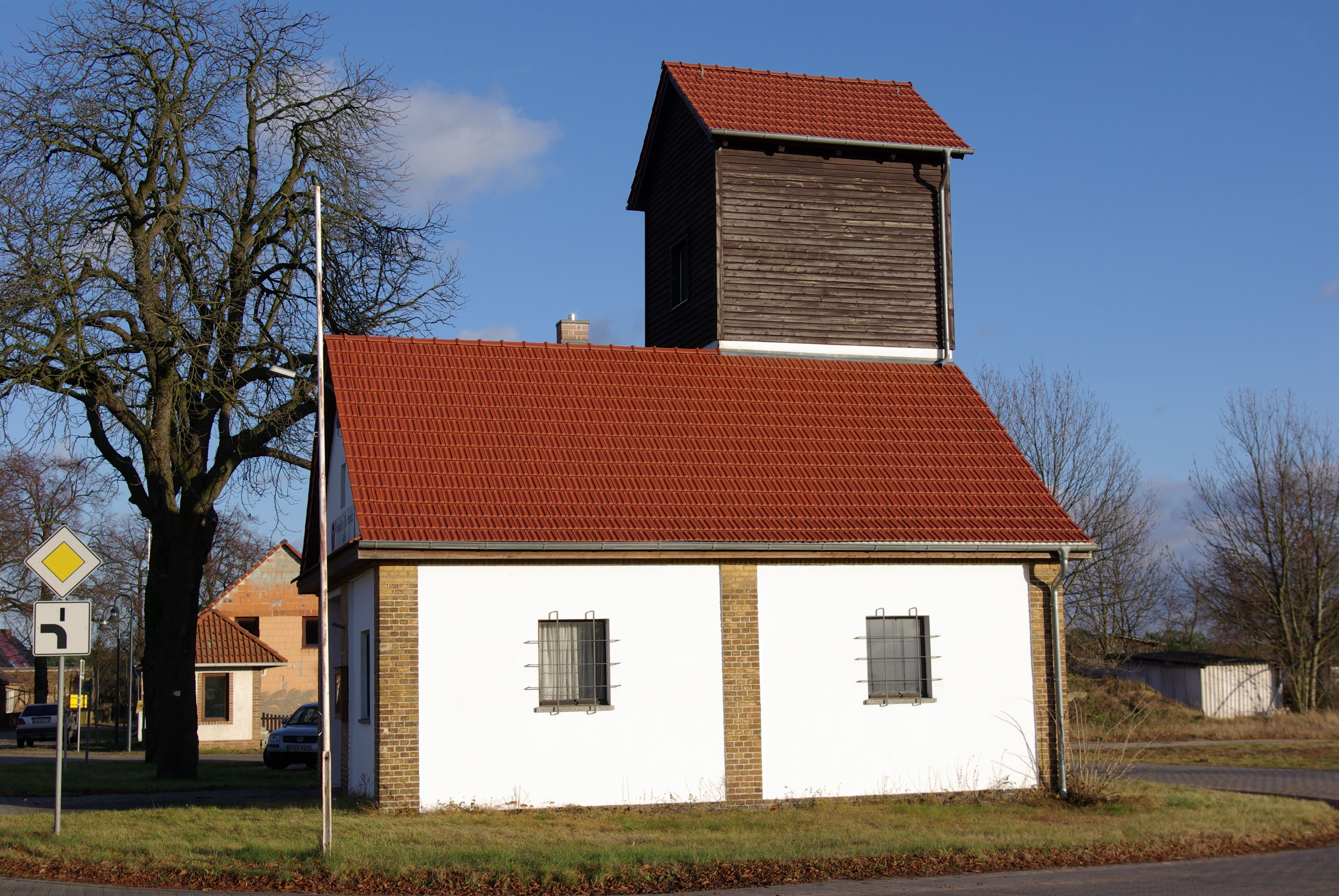 The volunteer fire department in Löpten, Groß Köris, Brandenburg, Germany